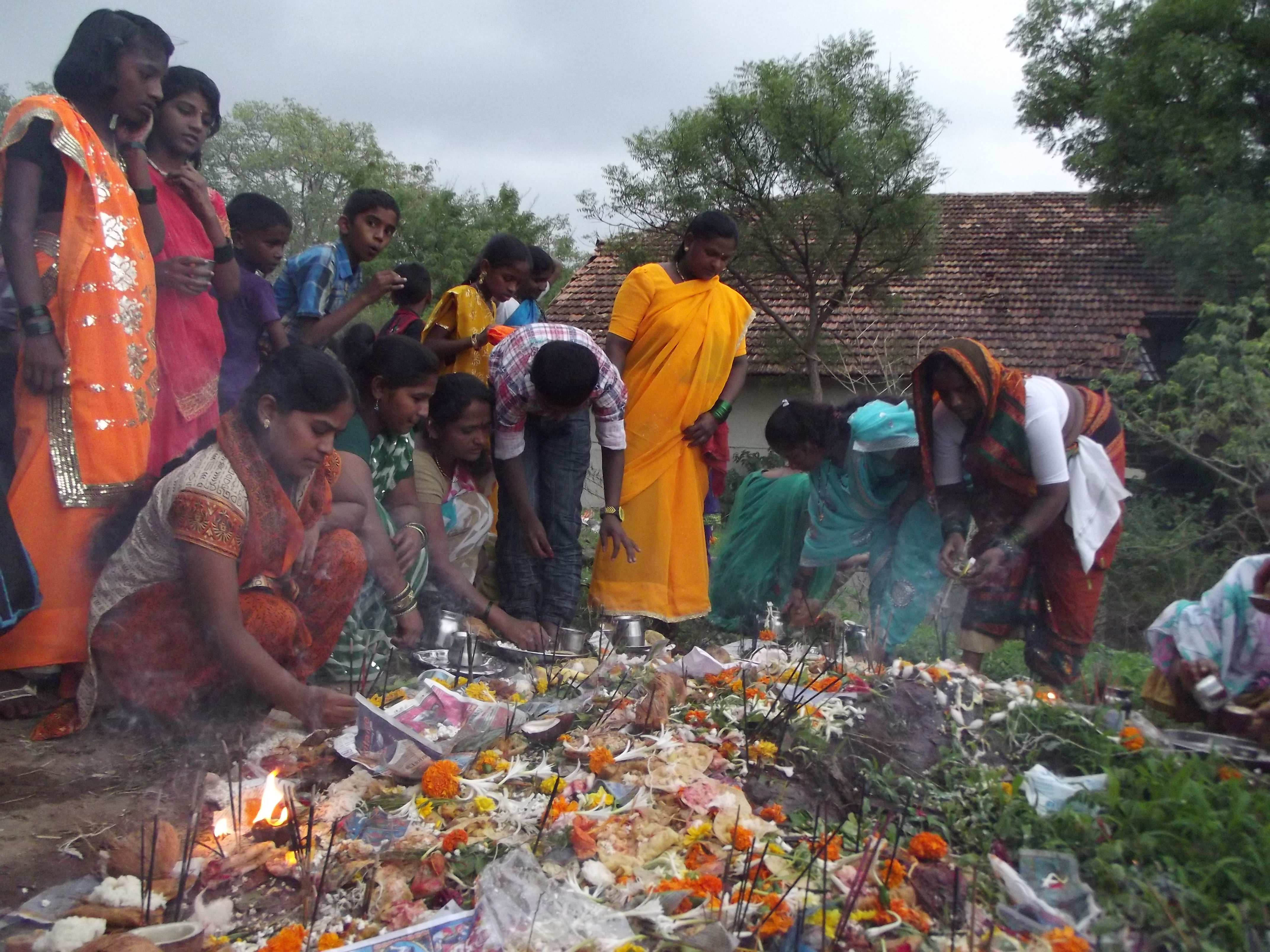 Nagpanchami Festival in Pune